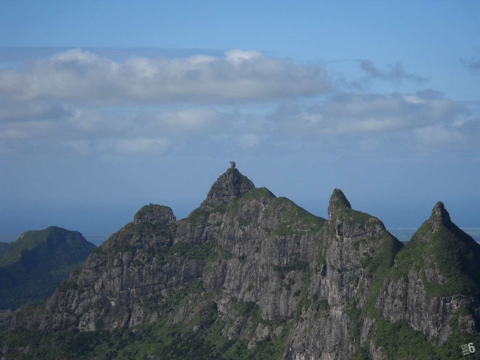 Le Pouce mountain , Mauritius island